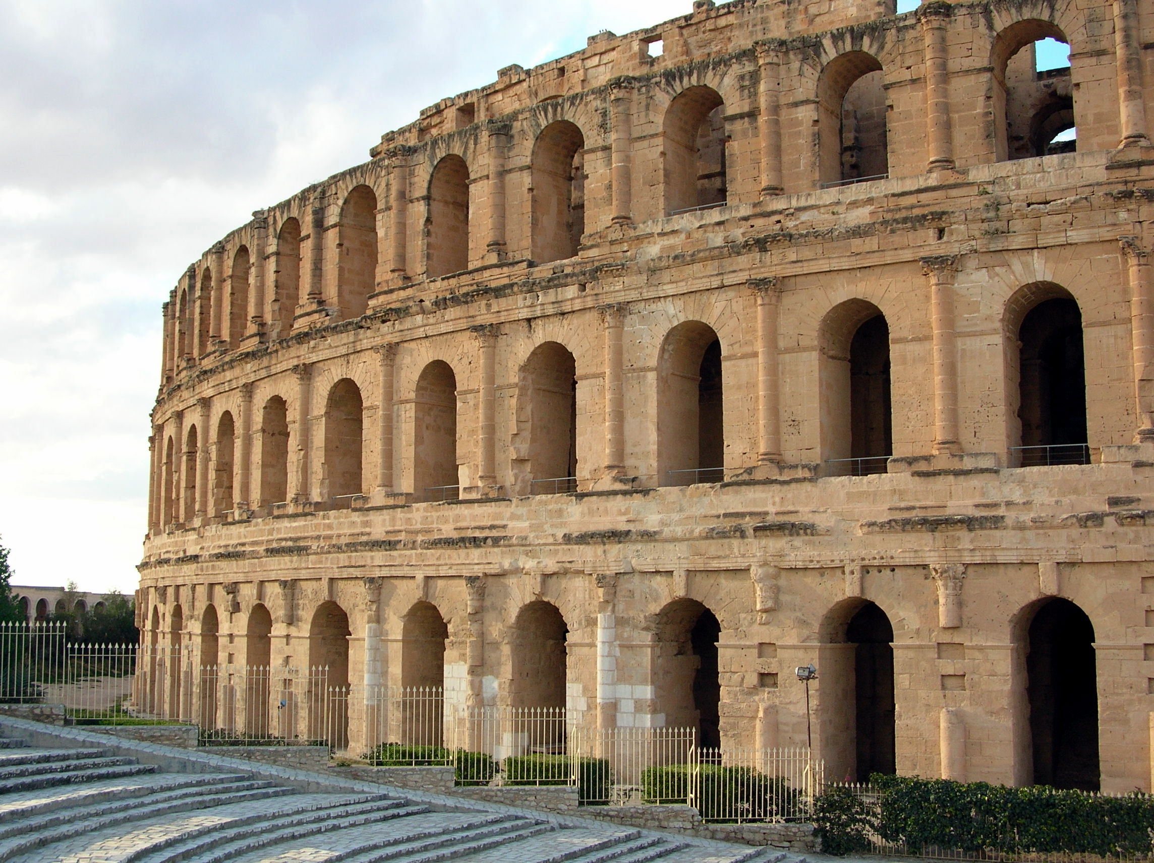 Amphitheatre of El Djem, Tunisia